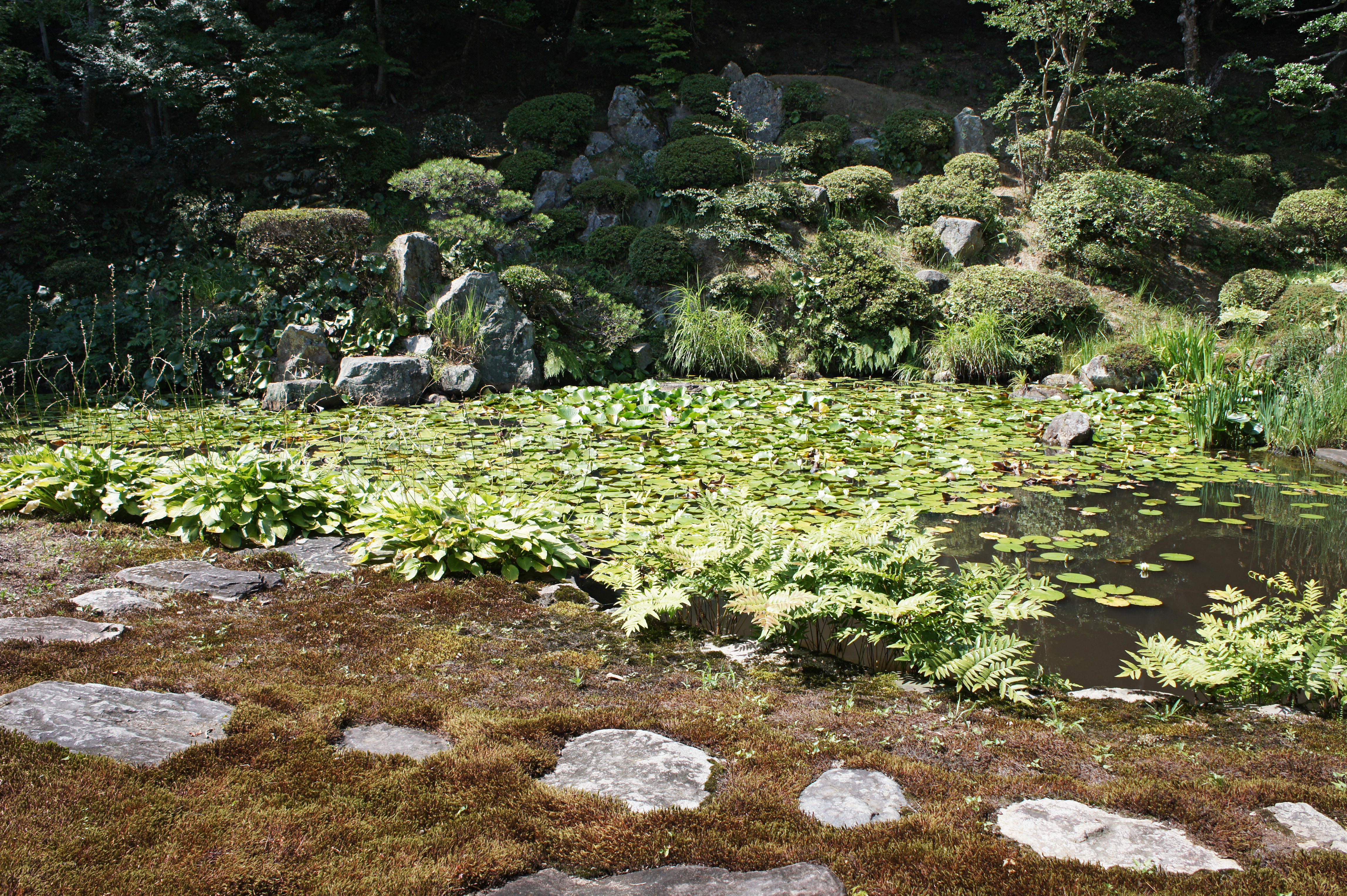 Kozenji in Tottori, Tottori prefecture, Japan.